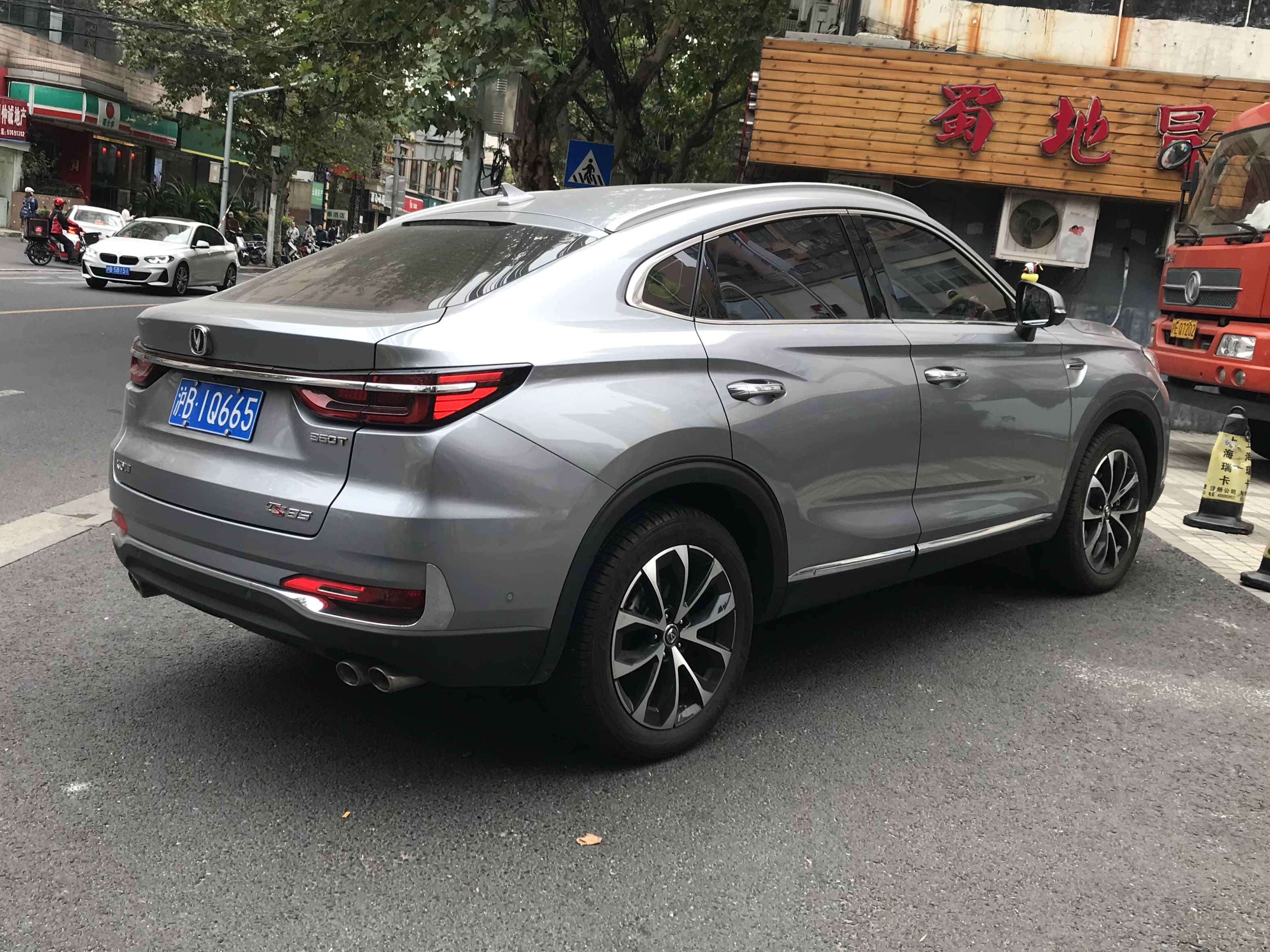 Changan CS85 Coupe rear